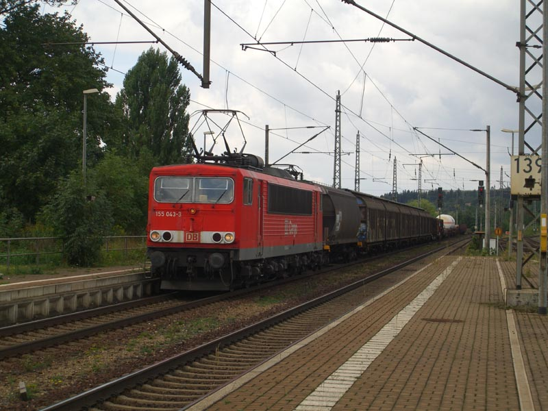 DB Cargo 155 043-3 hauling freight train 51165 from Kassel to Engelsdorf through Leinefelde/Thuringia.